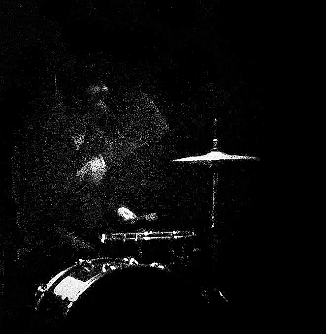 Stefan Krachten in photographical artwork by Werner Kiera aka Datenverarbeiter